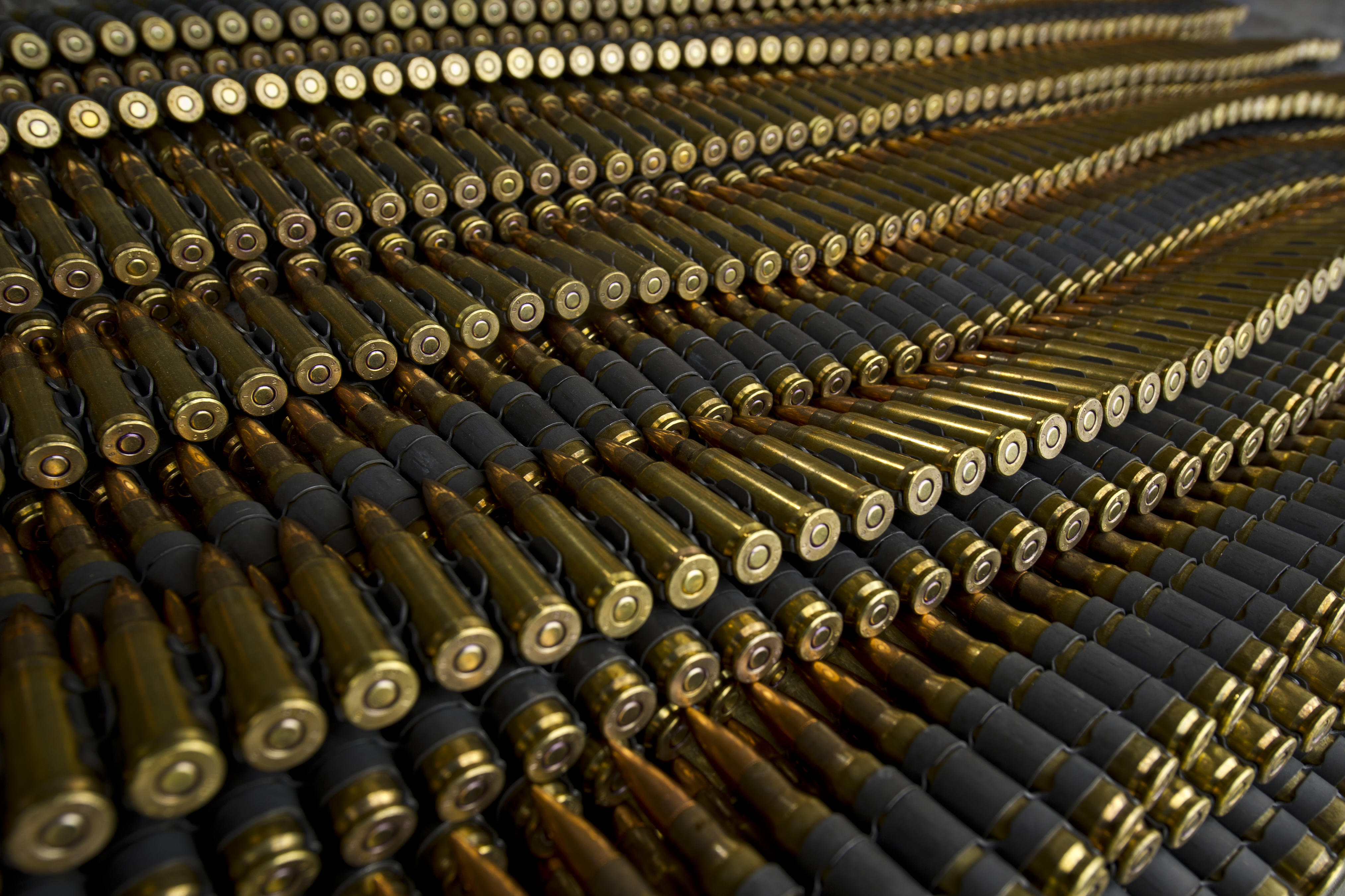 Belts of 7.62 mm ammunition are prepared for distribution to international competitors before an international machine gun shooting match at the 2012 Australian Army Skill at Arms Meeting (AASAM) in Puckapunyal, Australia, May 9, 2012. AASAM was an international marksmanship competition that included 16 countries.